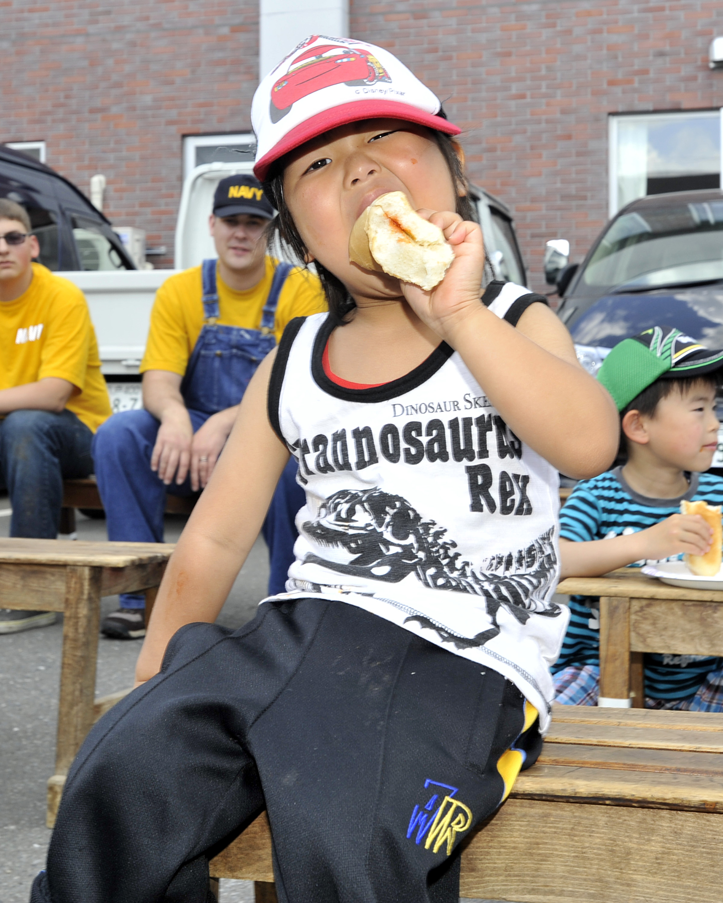 A young resident of the Biko-en Children's Care House enjoys a hot dog during a community relations event sponsored by Naval Air Facility (NAF) Misawa, Japan, June 28, 2014. Sailors with NAF Misawa and its tenant and deployed commands spent the day helping clean up and beautify the northern Japan-located orphanage.